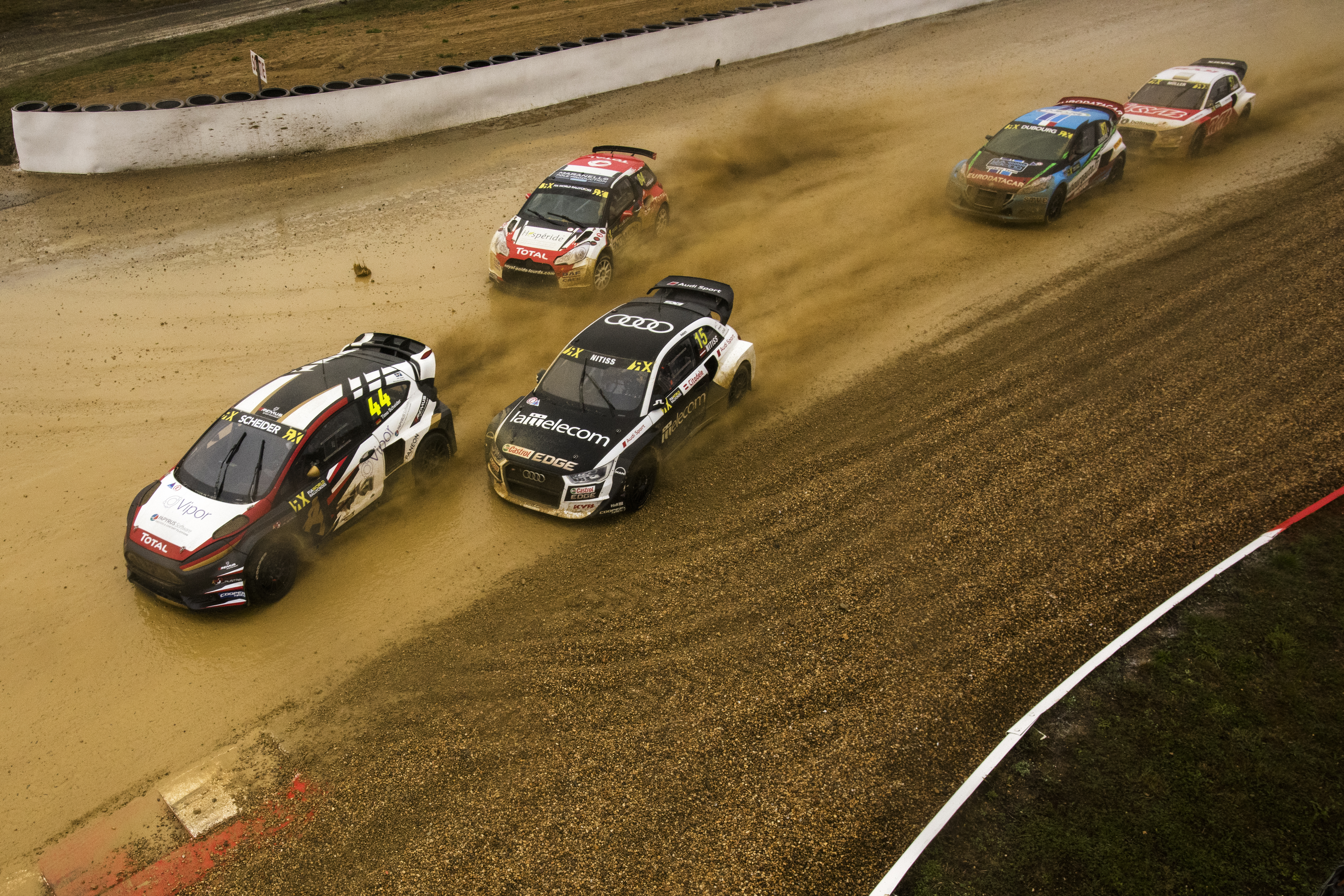 2017 FIA World Rallycross Championship // Round 09, Lohéac // Credit: EKS/Jaanus Ree